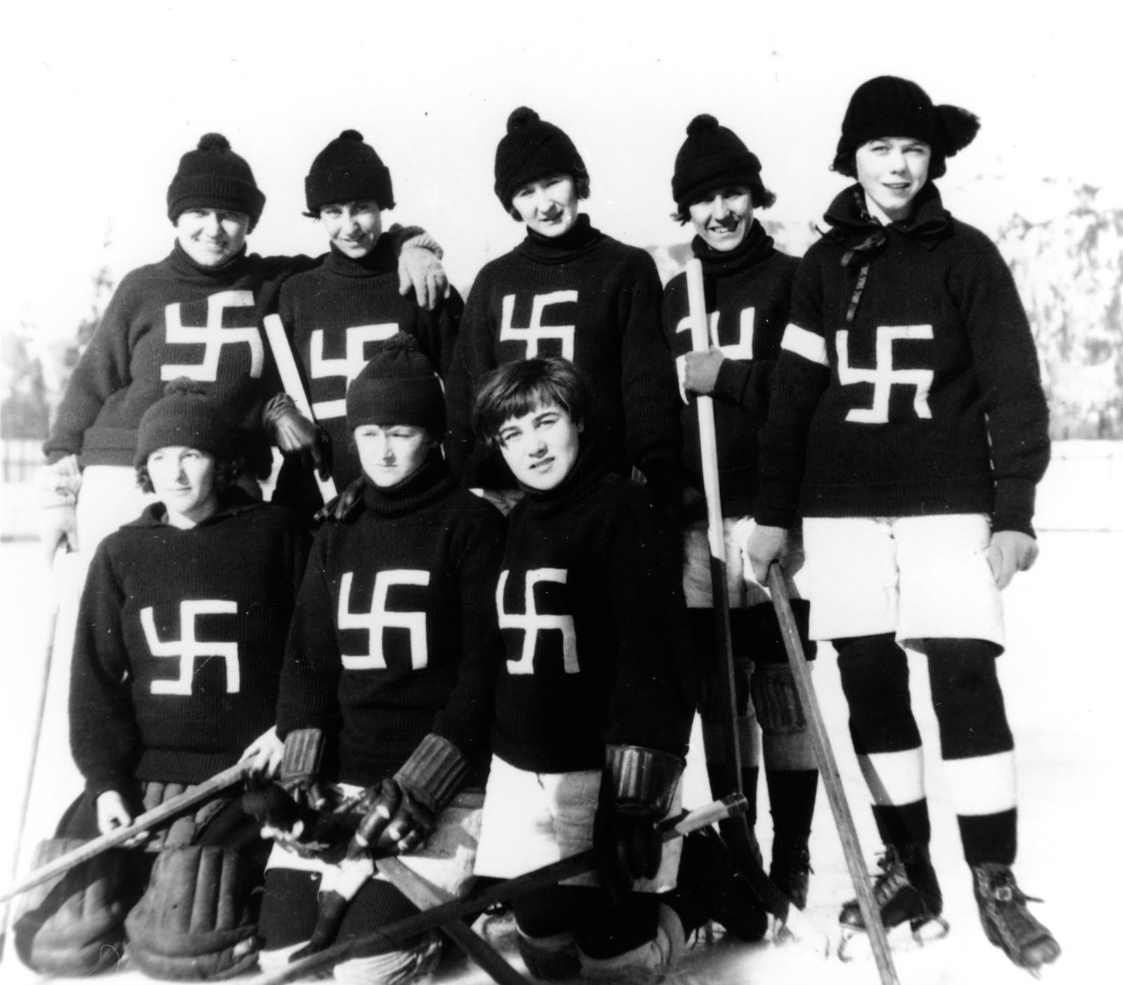 The Fernie Swastikas (c. 1922) wore red sweaters with a crooked cross in white, a symbol of good luck until perverted by the Nazis. Credit: Fernie and District Historical Society, no. 972